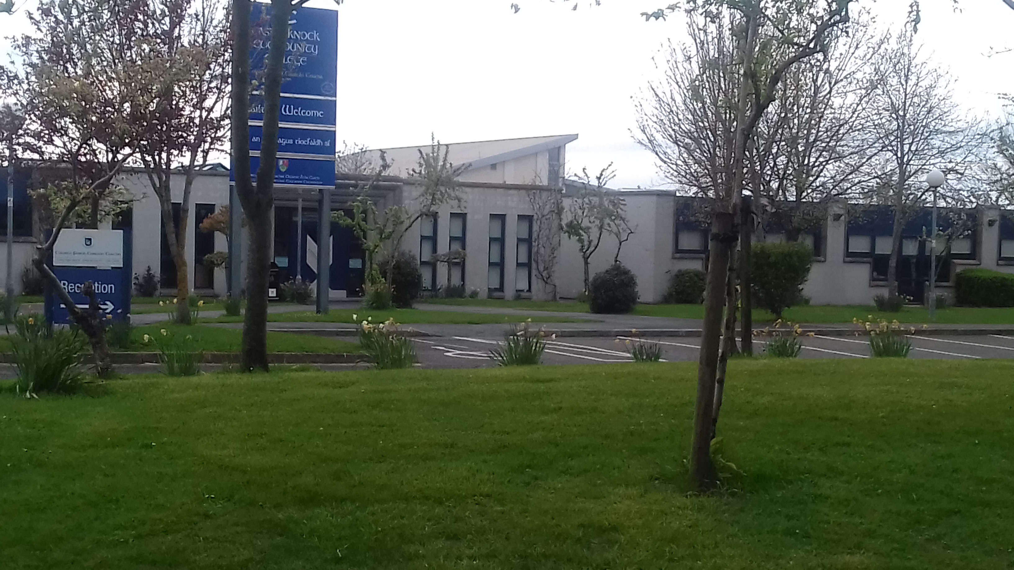 Building. Lawn. Trees. Signs. School.